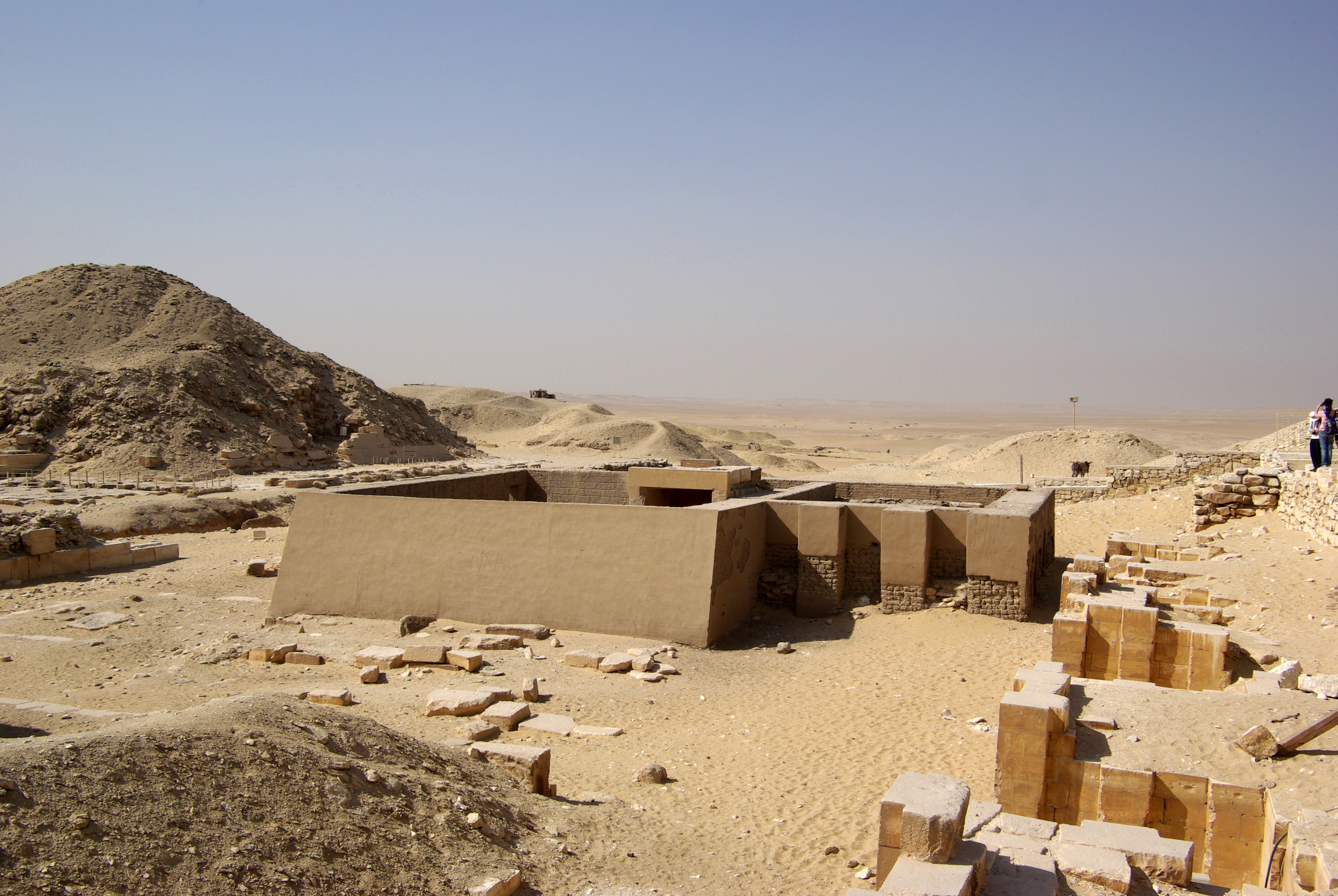 Egypt, Saqqara, Mastaba of Princess Idut